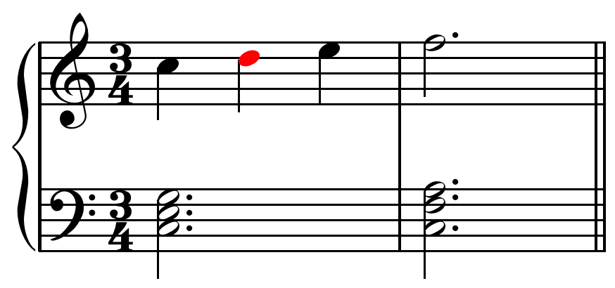 Passing tone example 1.